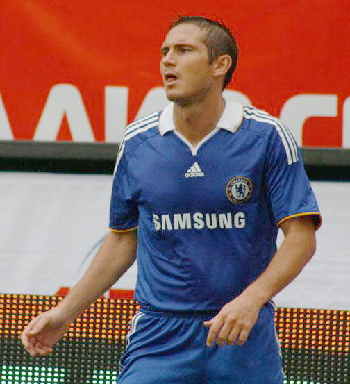 Frank Lampard